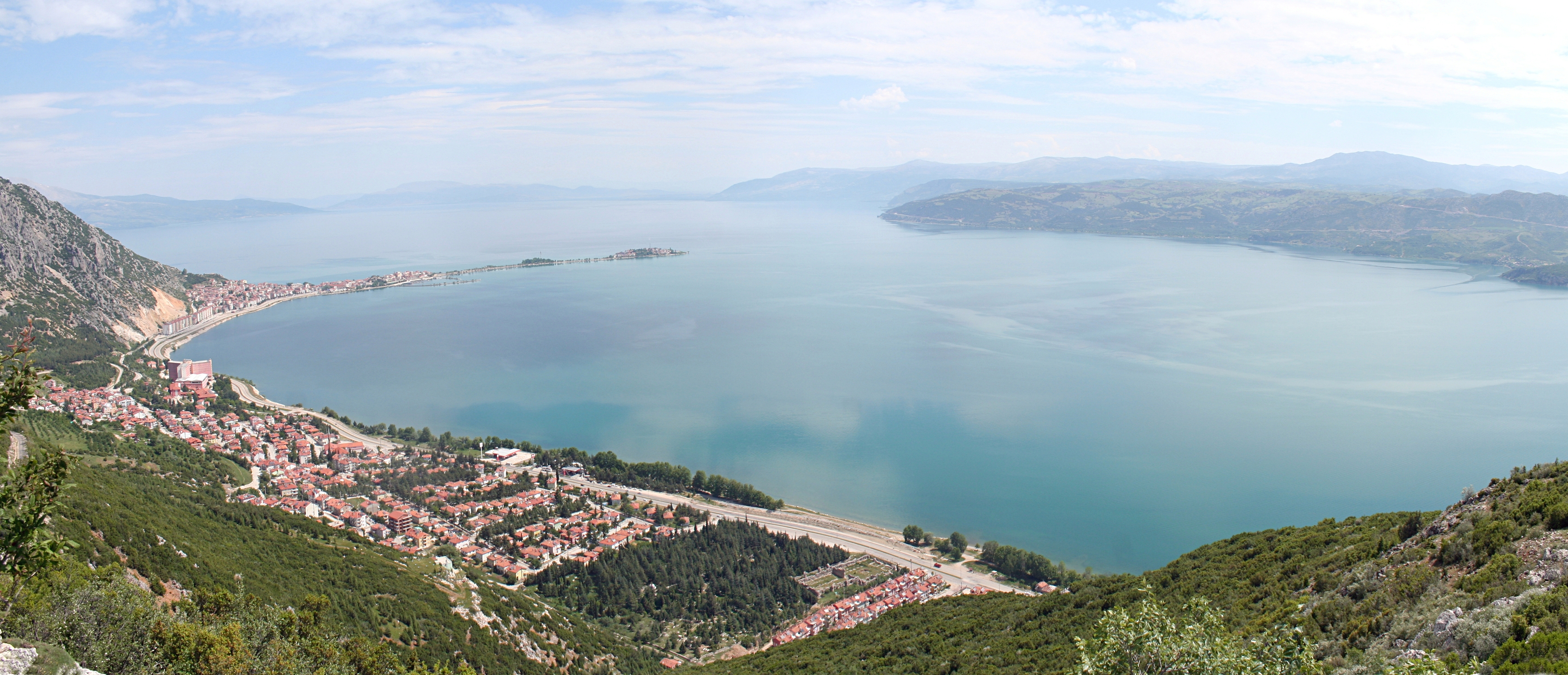 Lake Eğirdir with the town Eğirdir (on the left) and the two islands (Canada and Yesilada) The picture was taken at Akpinar